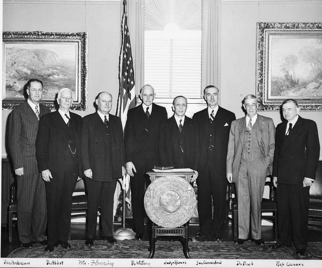 Swearing in of the seventh Secretary of the Smithsonian Institution Leonard Carmichael (1953-1964), with (l-r) Senator Clinton P. Anderson, Charles Greeley Abbot (fifth Secretary of the Smithsonian Institution, 1928-1944), Robert V. Fleming, Alexander Wetmore (sixth Secretary of the Smithsonian Institution, 1944-1952), Judge Harold M. Stephens (chief judge of the U.S. Court of Appeals), Leonard Carmichael, Vannevar Bush, and Representative Clarence Cannon at the induction ceremony held in the Board of Regents' Room of the Smithsonian Institution Building, the "Castle."